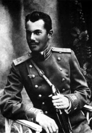 Leonid Karum - prototype of Talberg character from White Guard of Mikhail Bulgakov